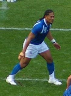 Manu Samoa winger, Alesana Tuilagi during RWC match against South Africa